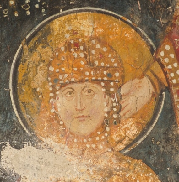 Detail of fresco of Uroš,son of Dušan Silni,part of Dušan`s fammily composition,Visoki Dečani,Serbia.